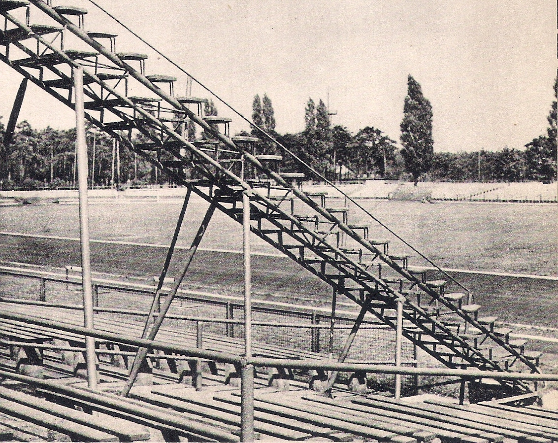 MOSiR Stadium at Zielona Góra.